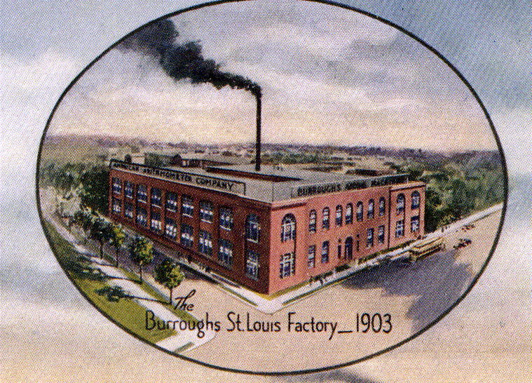 American Arithmometer Factory in 1903